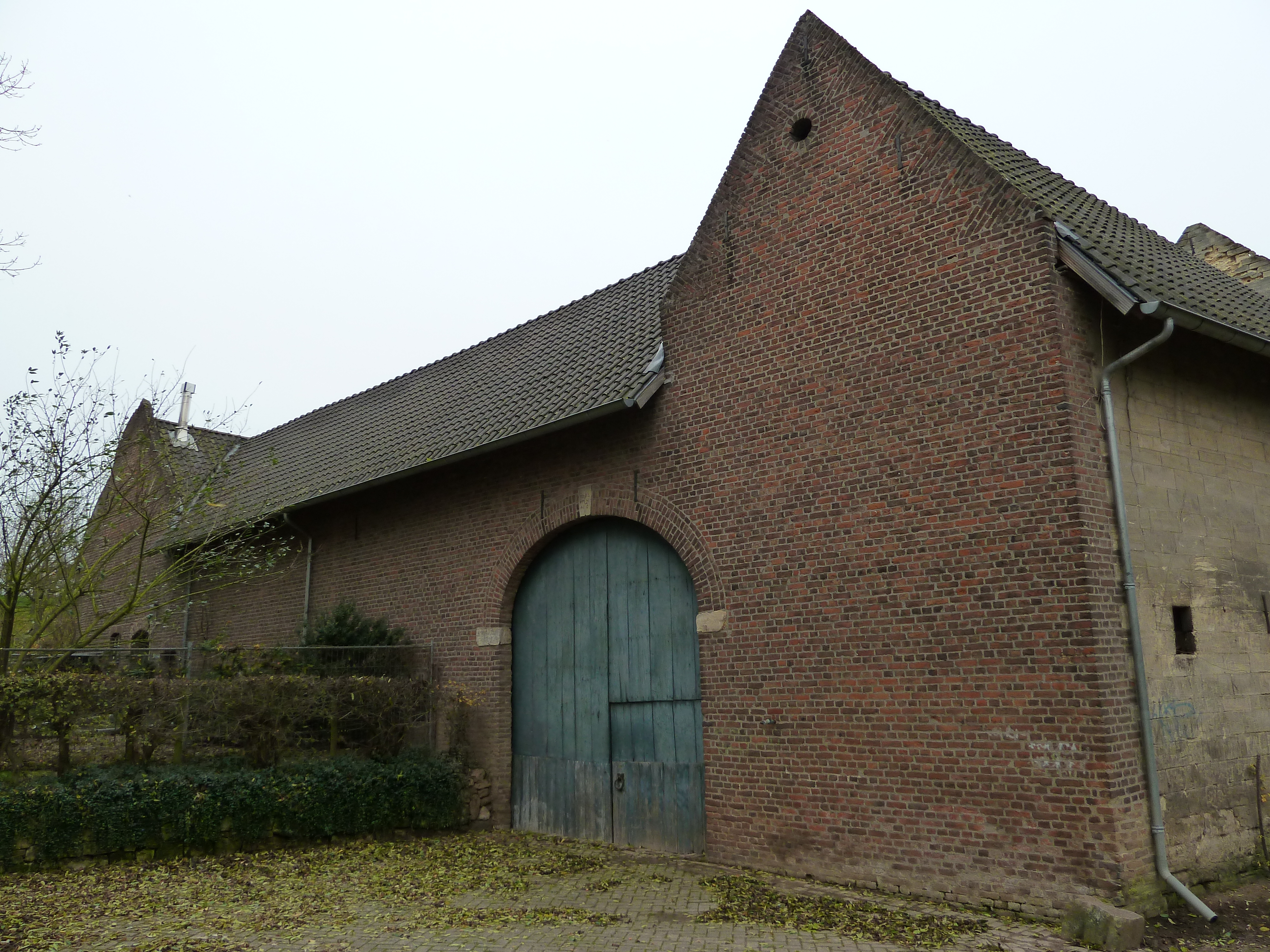 Kaardenbekerweg 30, Klimmen, Limburg, the Netherlands